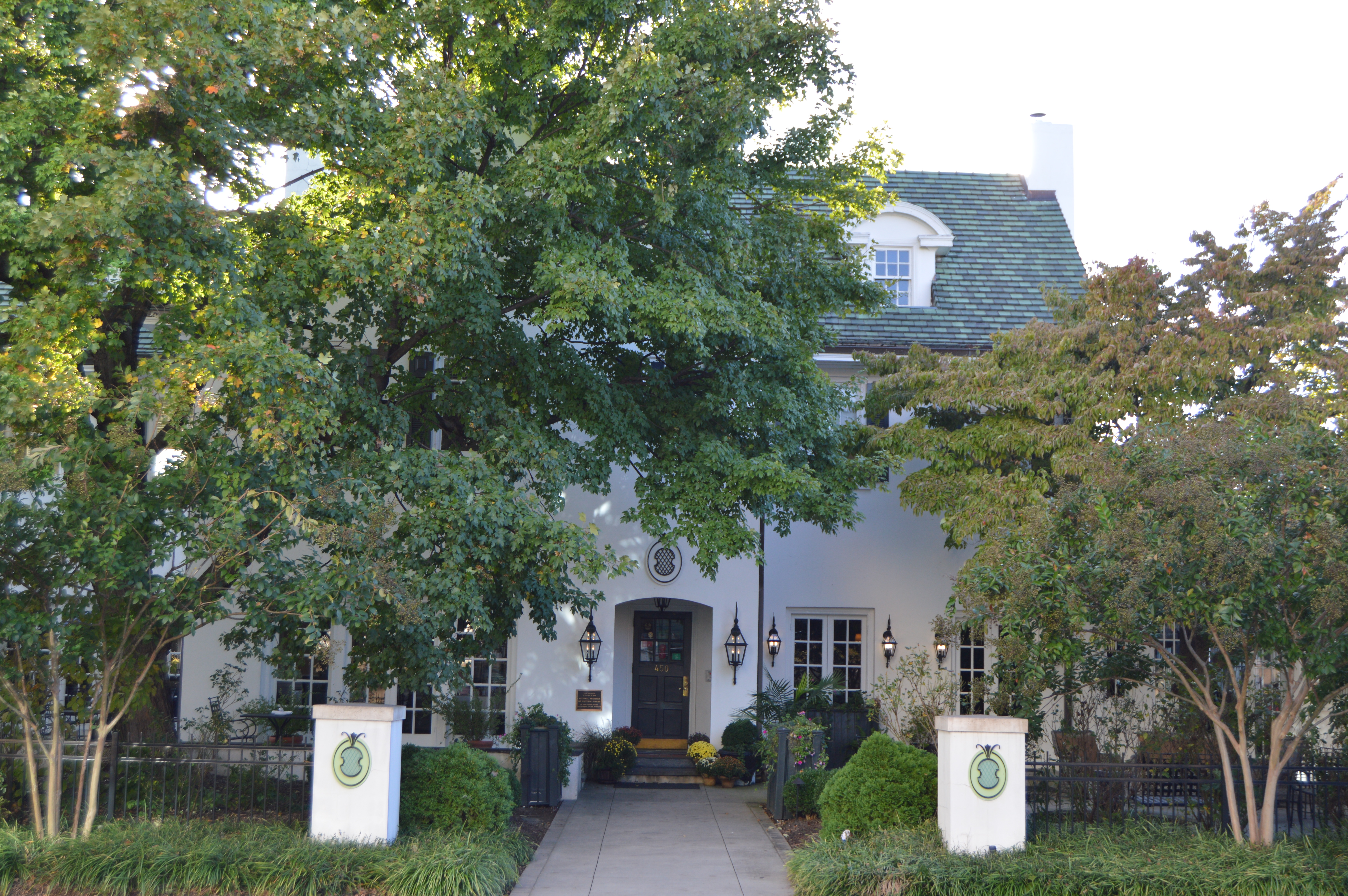 Front of the Agnew Hunter Bahnson House, located on Spring Street south of Fifth Street in Winston-Salem, North Carolina, United States. Built in 1920, it is listed on the National Register of Historic Places.